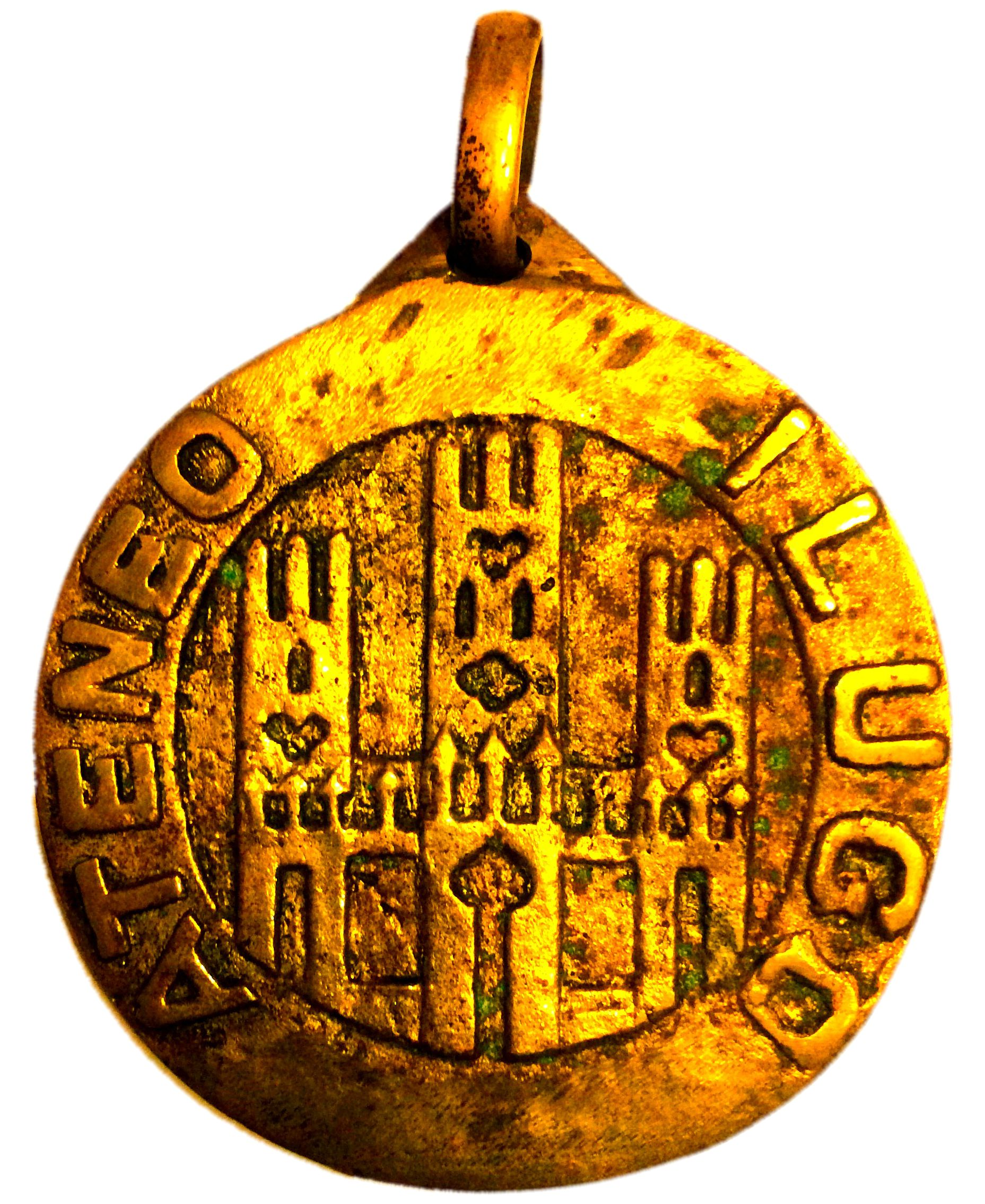 Corporate Medal of the members of the Ateneo de Ilugo.